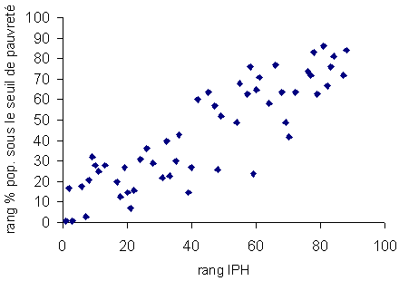 Correlation between two poverty indicators: the rank following the HPI, and the rank following the percentage of populaiton with an income less than 1 USD per day. Made with a spredsheet. The maximal discrepancy is 35 ranks; the estimator of the standard deviation σ is 12.93 ranks; the regression coefficient is 0.88.